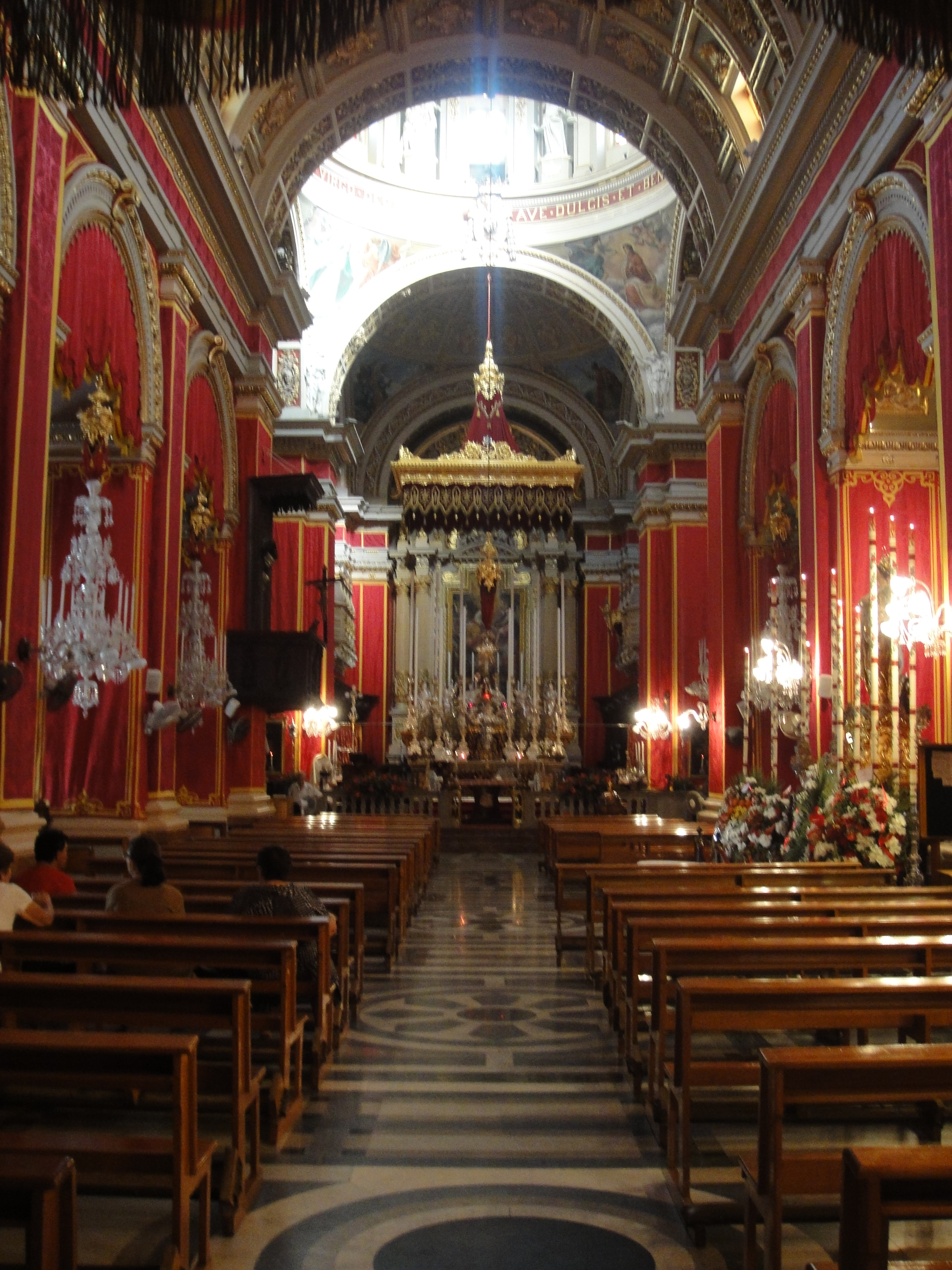 The interior of the parch church of St Catherine in Żurrieq Malta.